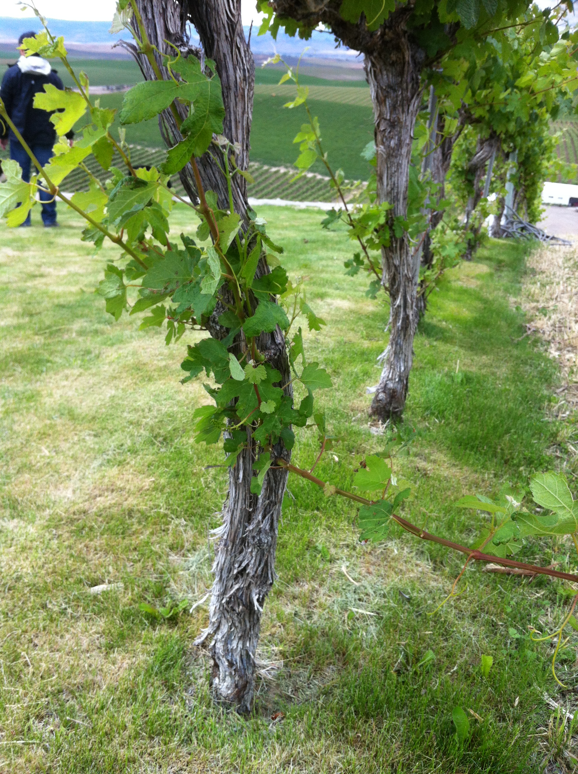 A grapevine with lots of basal shoots (also known as suckers and water sprouts) growing from the trunk of the vines.